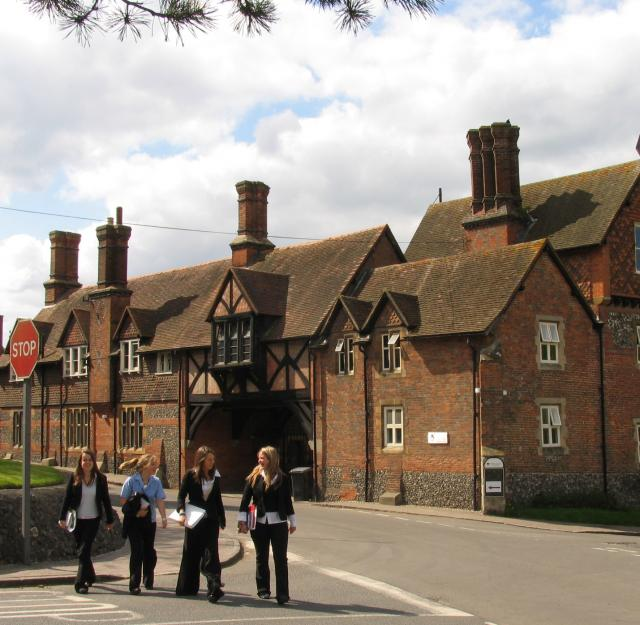 The cross roads in the centre of the village of Bradfield, Berkshire, England. The buildings in the background are part of Bradfield College. For more information see the Wikipedia articles Bradfield, Berkshire and Bradfield College.